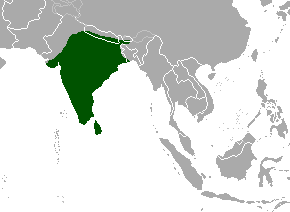 Range map of the chital (Axis axis) According to: Duckworth, J.W., Kumar, N.S., Anwarul Islam, Md., Hem Sagar Baral & Timmins, R.J. 2008. Axis axis. In: IUCN 2011. IUCN Red List of Threatened Species. Version 2011.1. . Downloaded on 16 July 2011. Source=Base map derived from File:BlankMap-World.png.